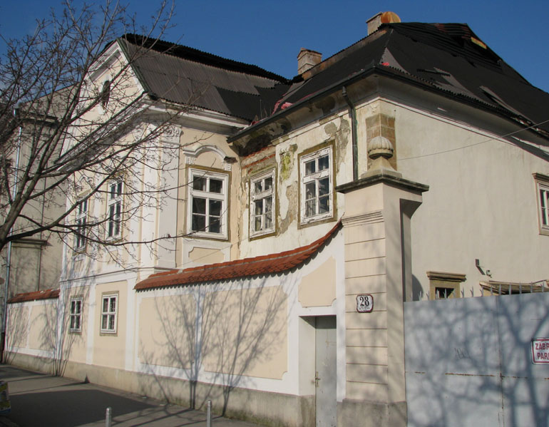 Kaptol 28, Zagreb.